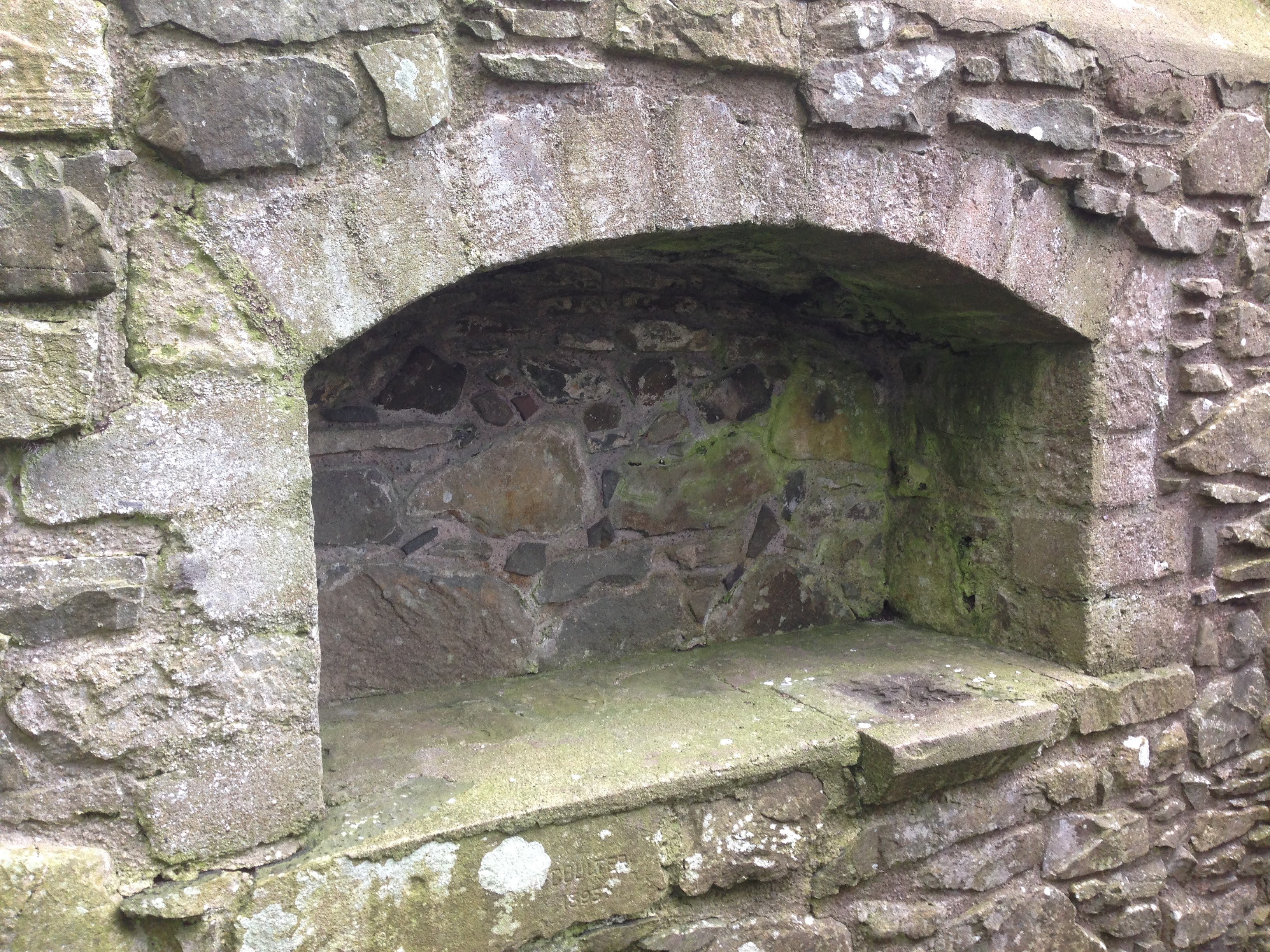 Piscina in the South wall of the chancel at Inch Abbey, Downpatrick